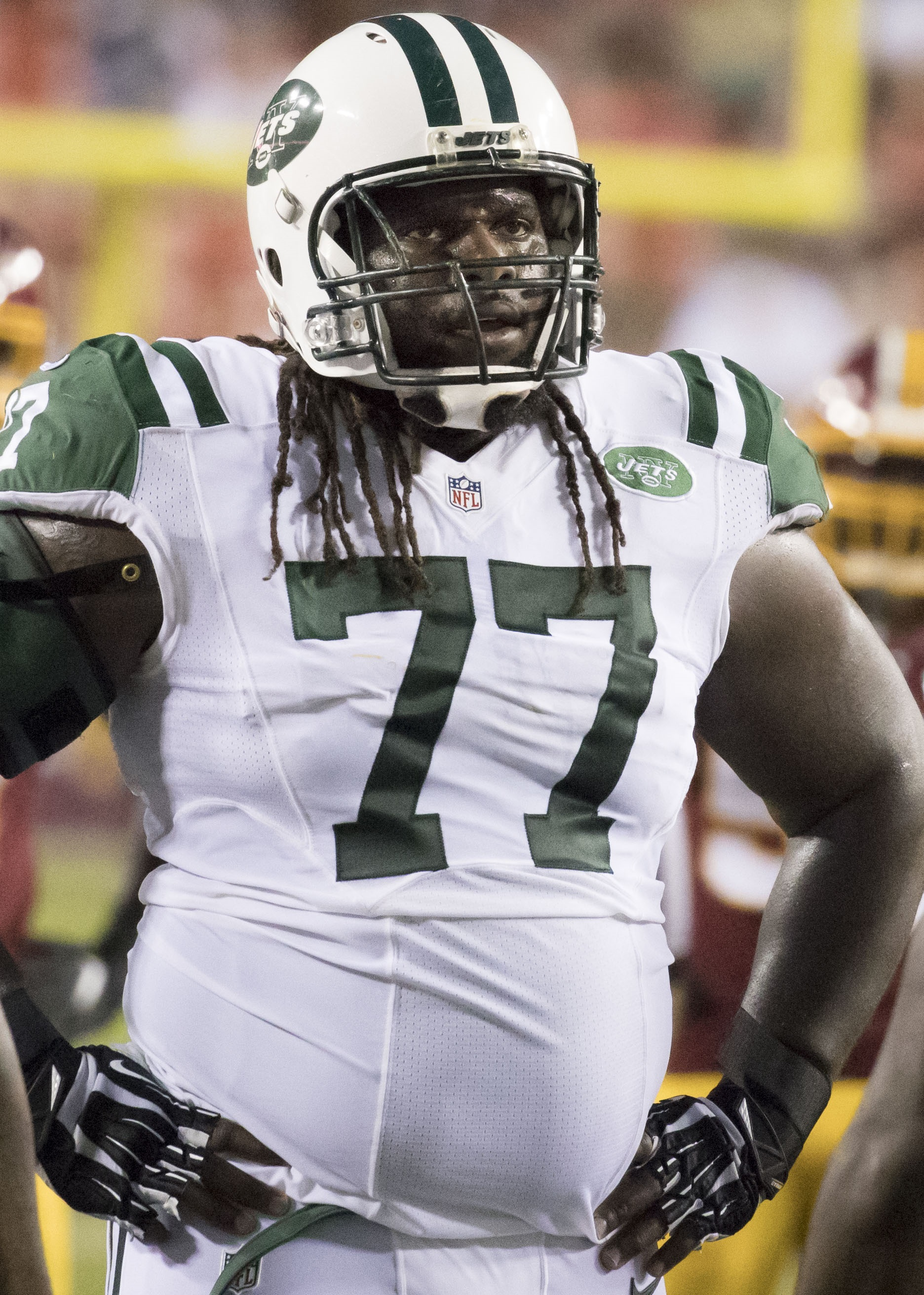 Jets at Redskins 8/19/16